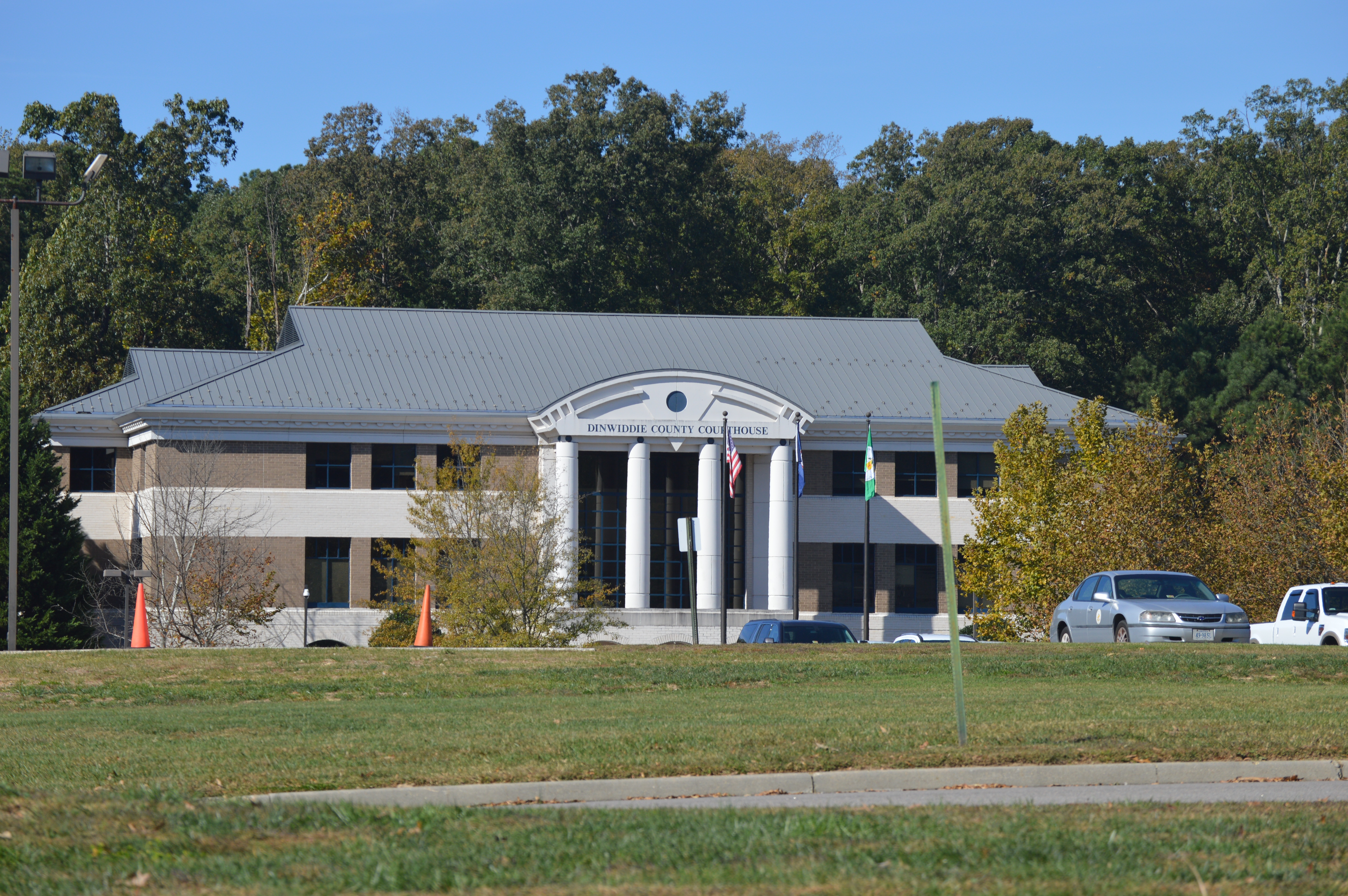 Front of the current Dinwiddie County Courthouse, located at 14008 U.S. Route 1 in Dinwiddie, Virginia, United States.